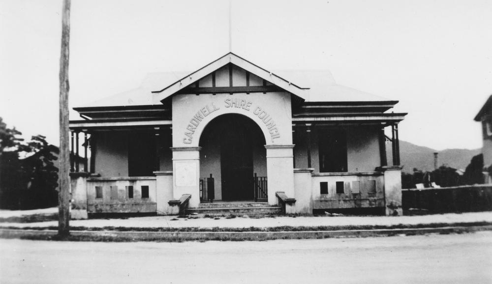 Cardwell Shire Council Chambers, circa 1930, located on the south-east corner of Bryant and Morris Streets, Tully. Now the Dorothy Jones library of the Cassowary Coast Regional Council.